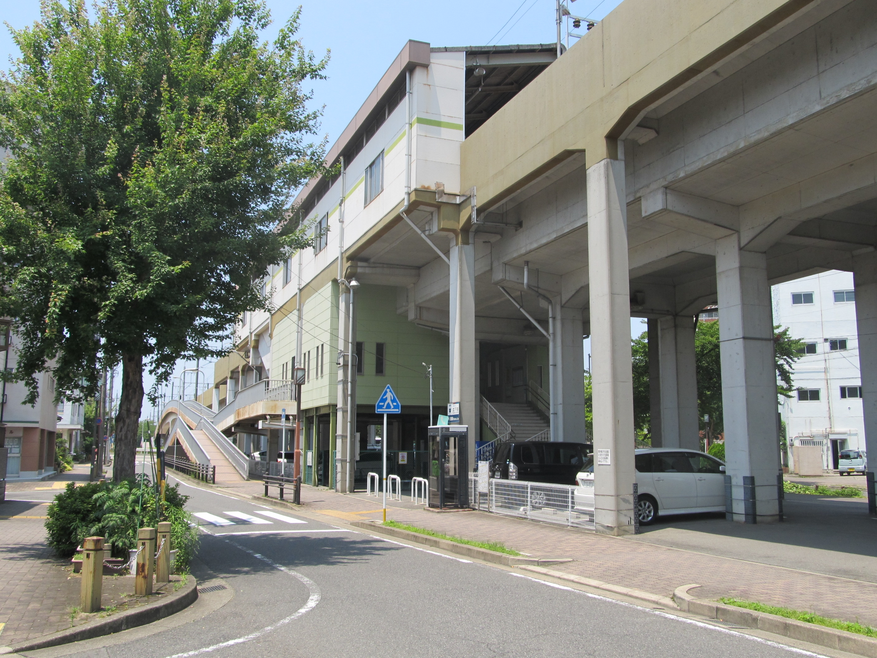 Nagoya Railroad Seto Line Morishita Station Building